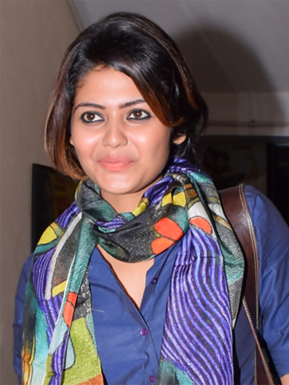 Saayoni Ghosh, an Indian Bengali film and television actress and singer, at a film premiere in 2015